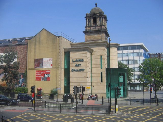 Laing Art Gallery. City Centre gallery still has some interesting exhibits.